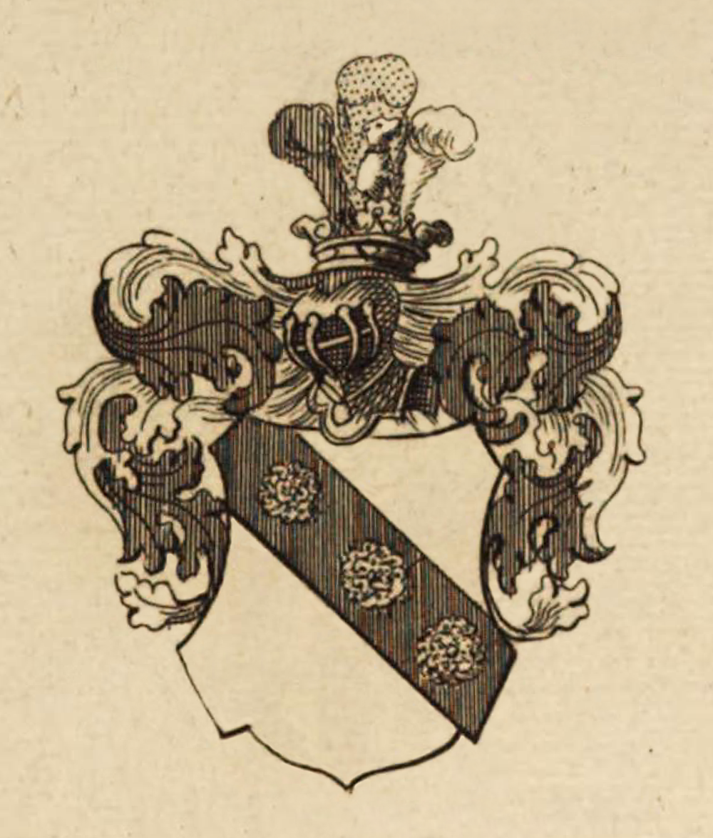 Coat of arms of Serainchamps